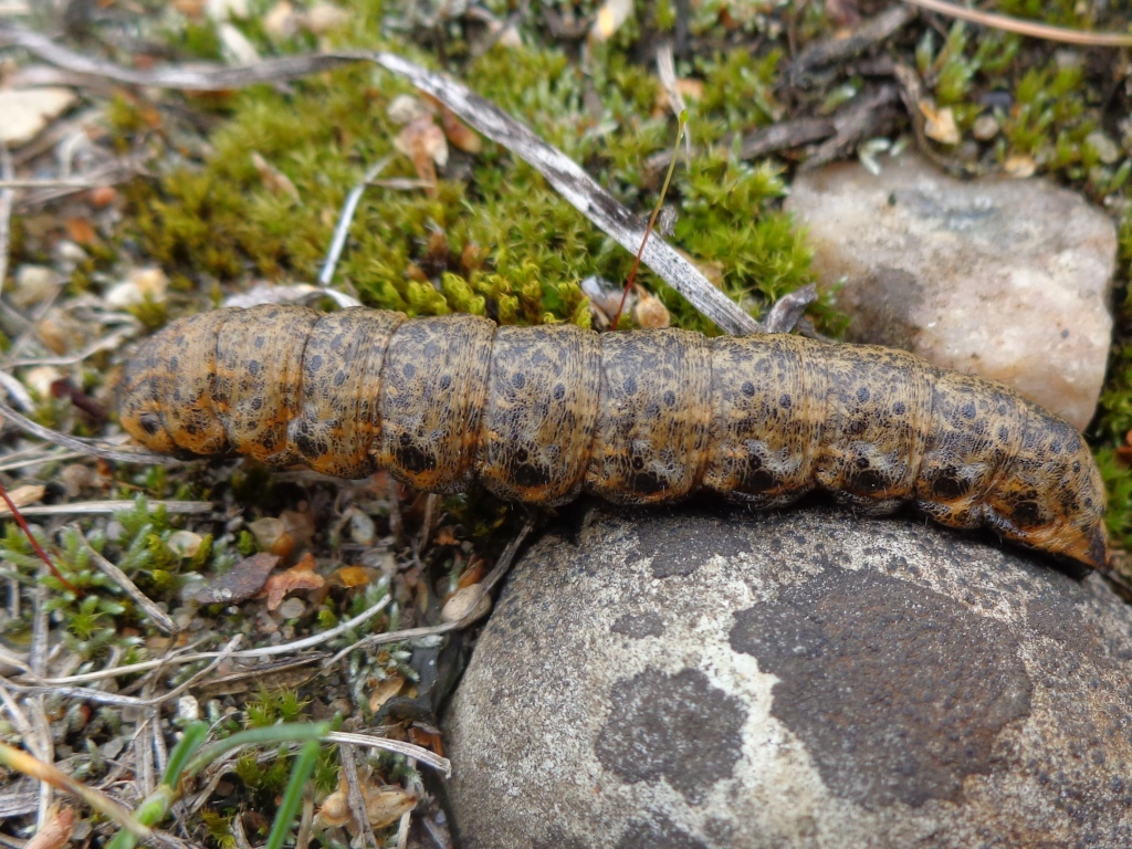 Cucullia umbratica. Found in Rīga town, Latvia